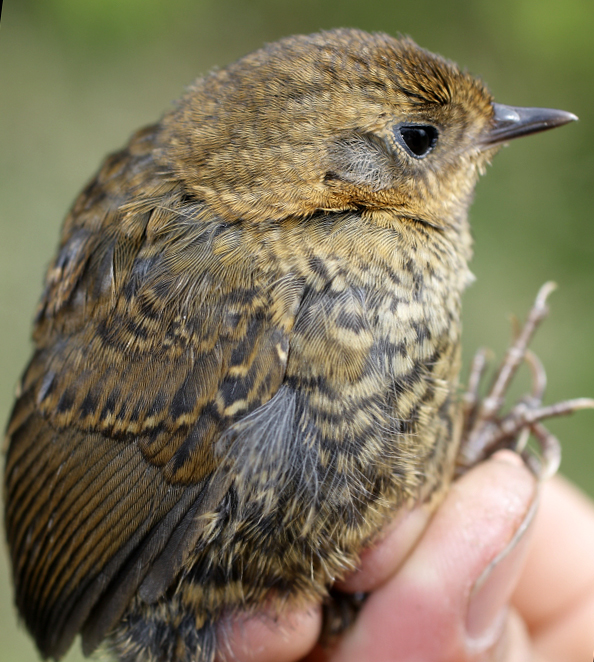 juvenile of Scytalopus perijanus (Perija Tapaculo) - a new bird species from Venezuela and Colombia (Avendaño et al. 2015. The Auk 132: 450–466).